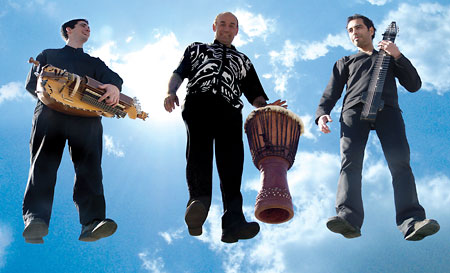 Guillermo Cides